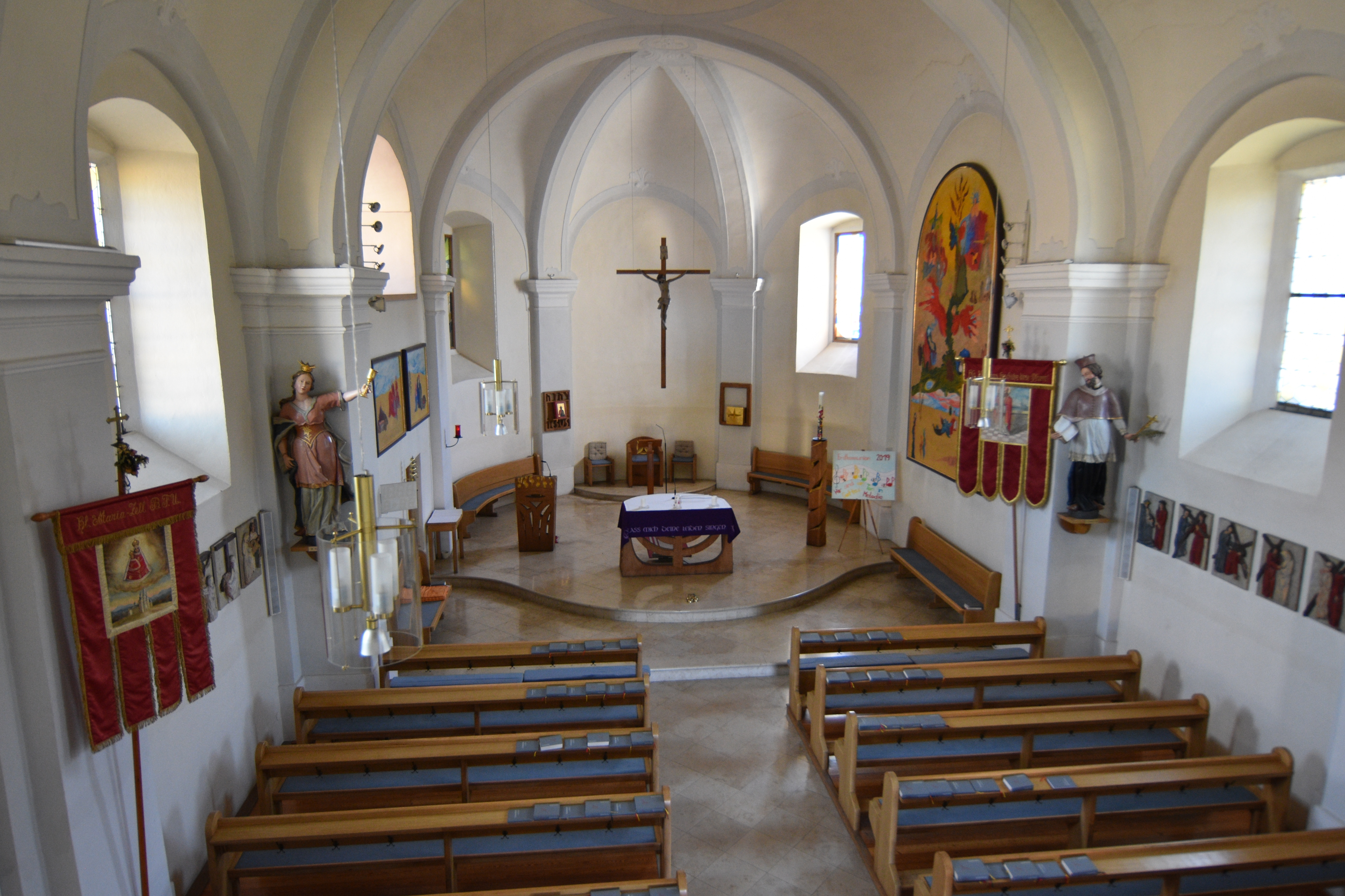 Church hl. Nikolaus (Kemeten) - Interior